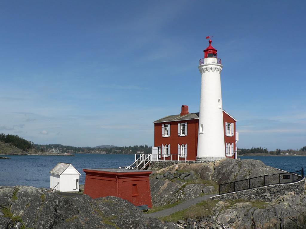 Fisgard Lighthouse (1860) at Esquimalt, BC, was the first on Canada's west coast. It's still operational today.